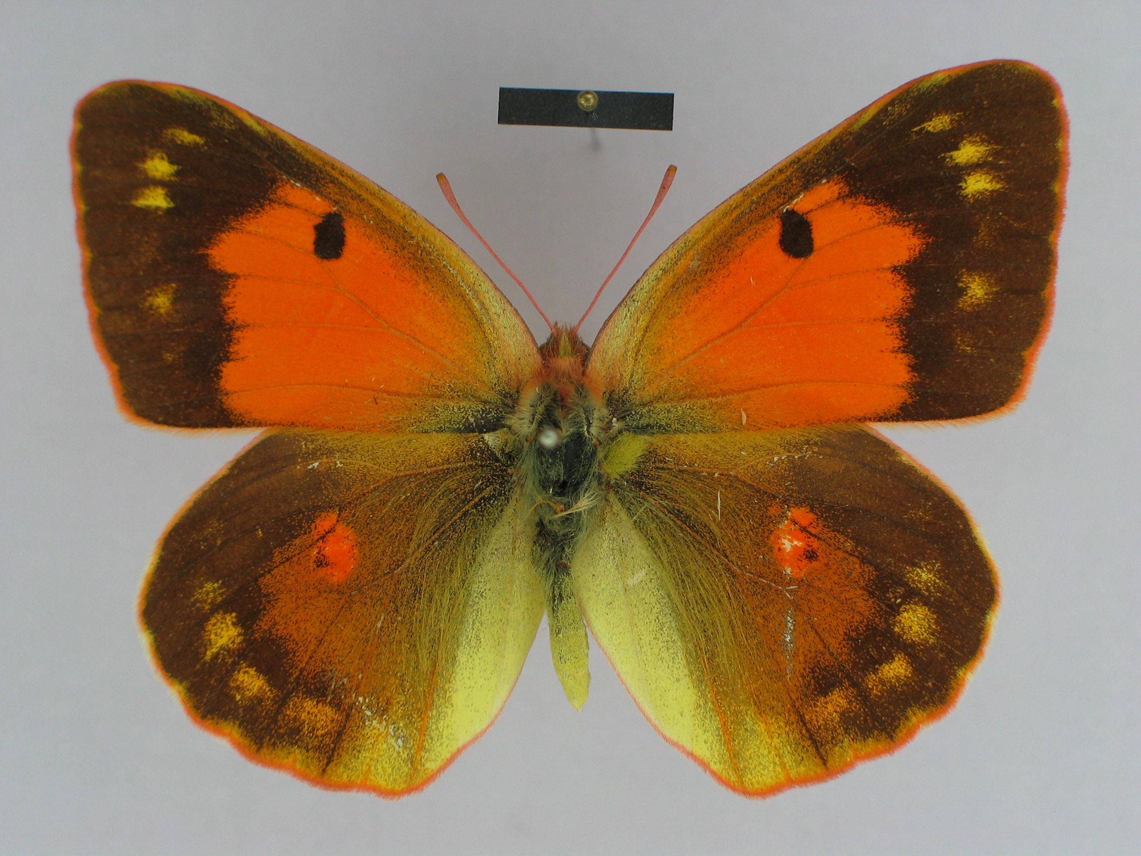 Specimen of the species Colias romanovi romanovi from the collection of the Zoological Museum of the Zoological Institute of the Russian Academy of Sciences; ♀ dorsal side; scalebar=1 cm